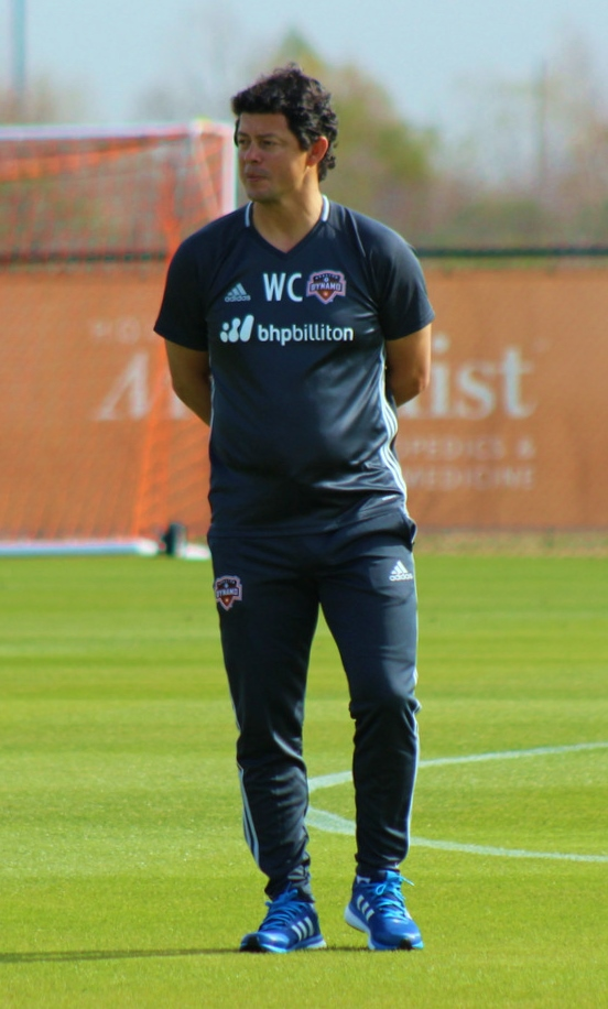 Wilmer Cabrera